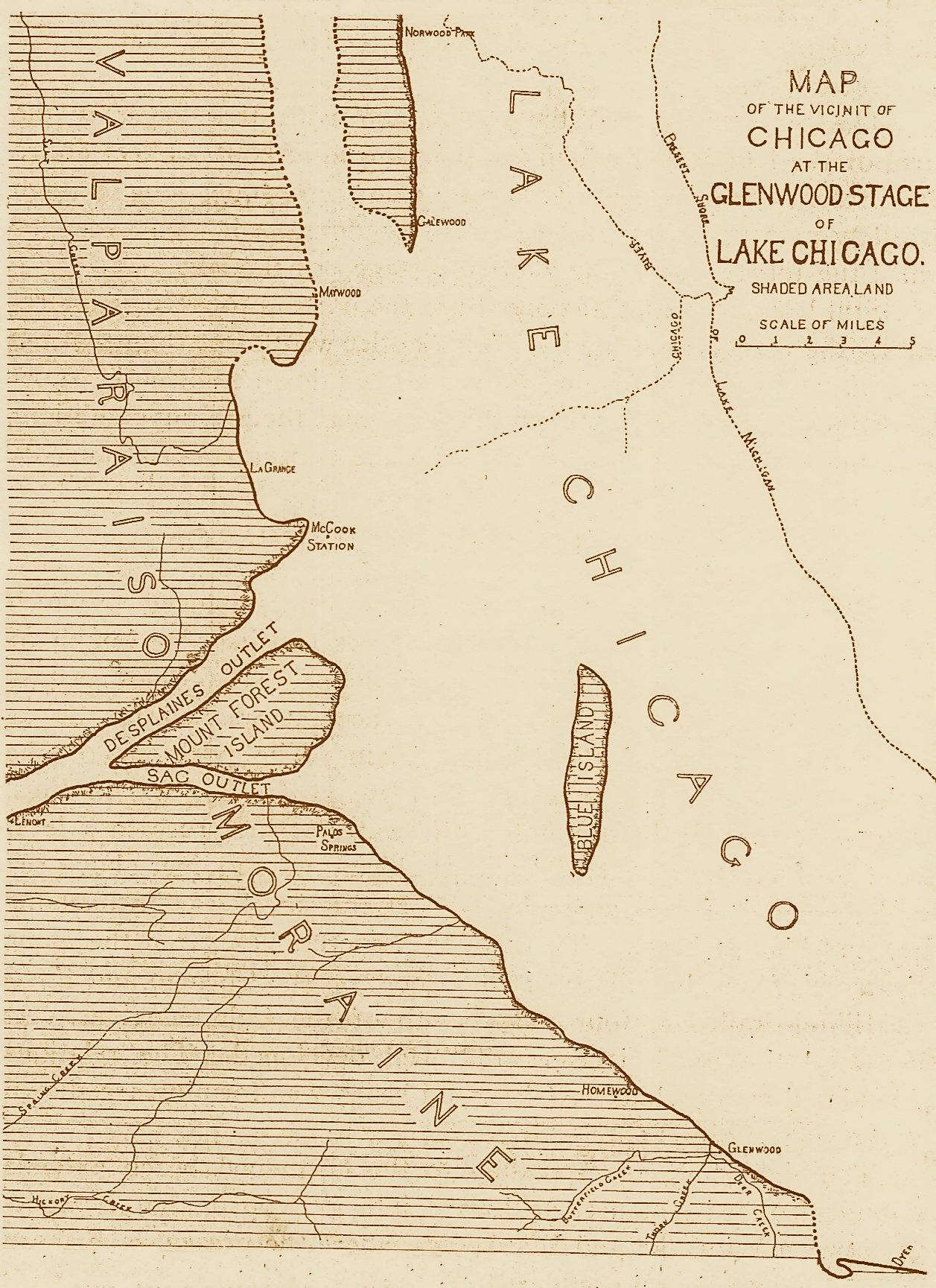 Drawing of Lake Chicago at the Glenwood Stage showing the Chicago area. From Bullitin No. 1 of the Chicago Geographic Society